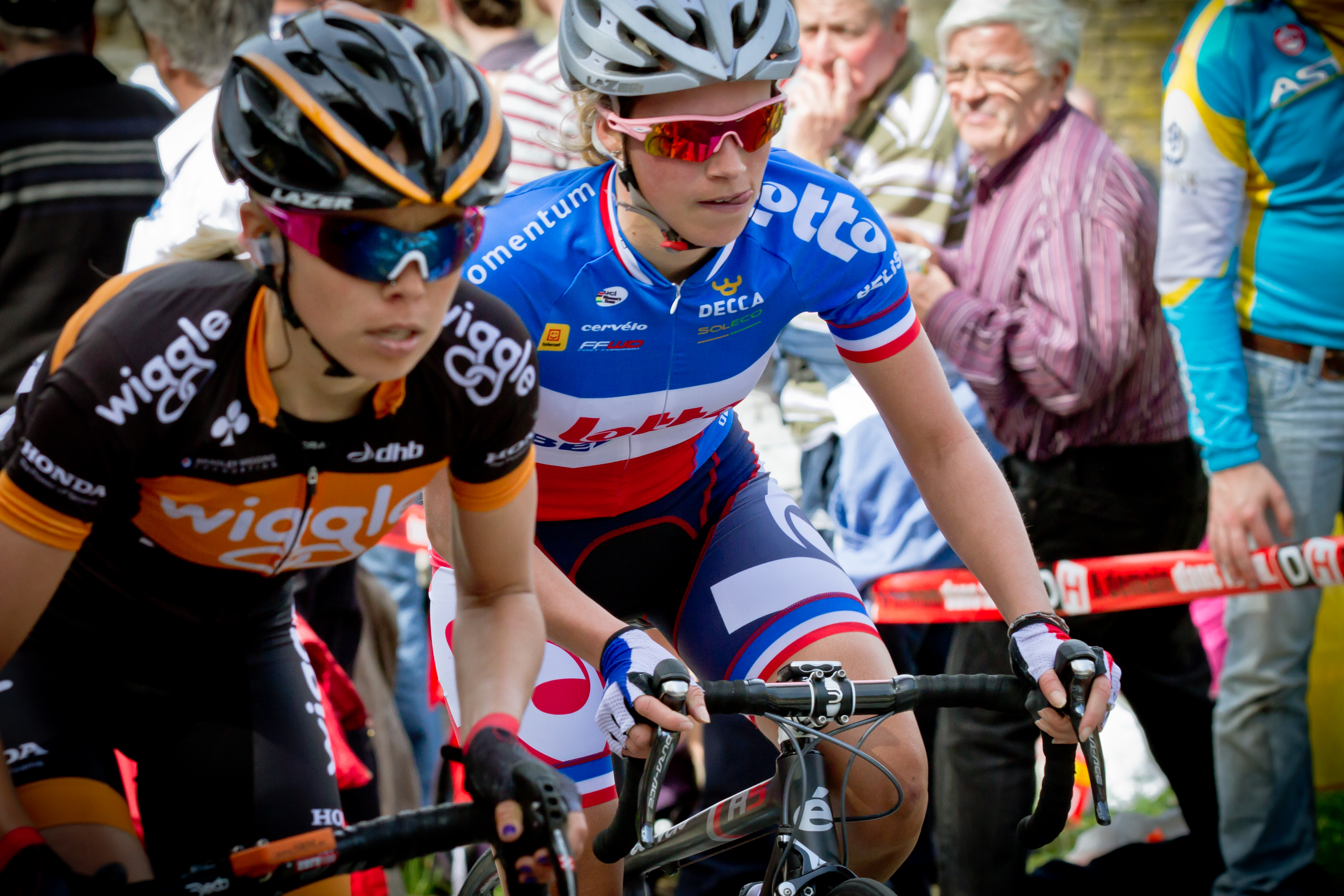 Emily Collins (left) and Marion Rousse climbing the Mur de Huy. La Flèche Wallonne Femmes 2013